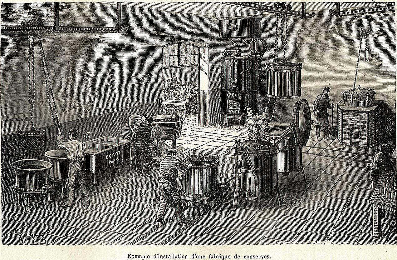 Inside a canned food factory. Engraving by Poyet from Albert Seigneurie's Grocery Encyclopedia, first edition 1898.